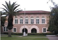 Henry B